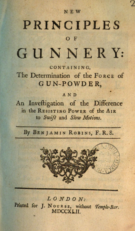 Frontpage of New Principles of Gunnery (1742) by Benjamin Robins (1707-1751)